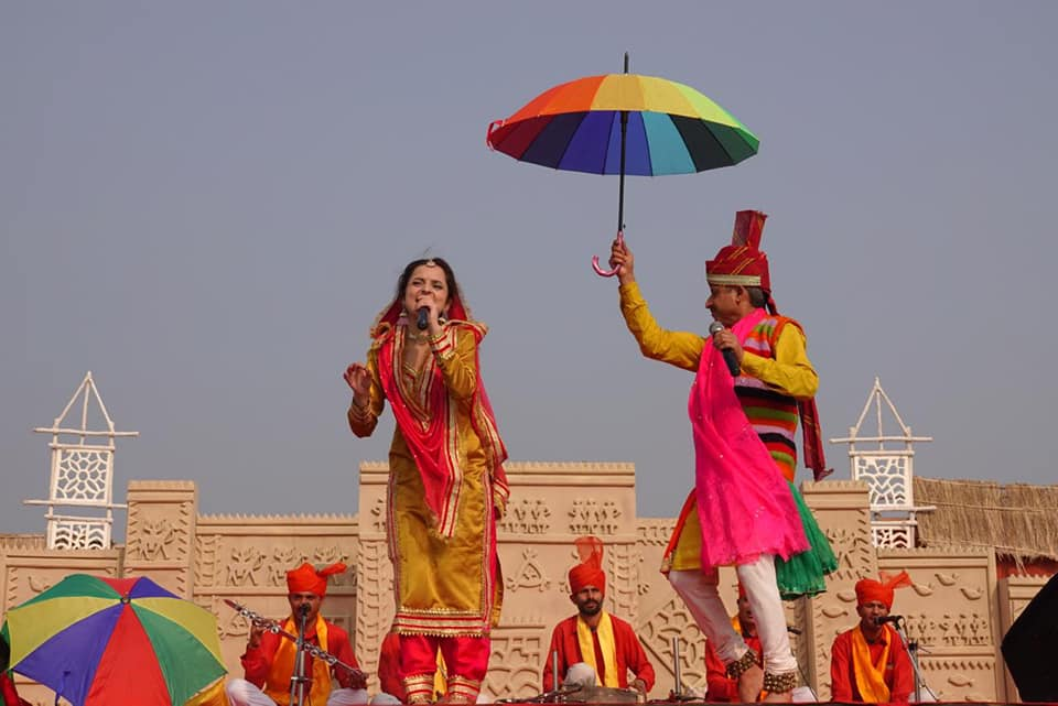 ROMALO RAM AND PARTY